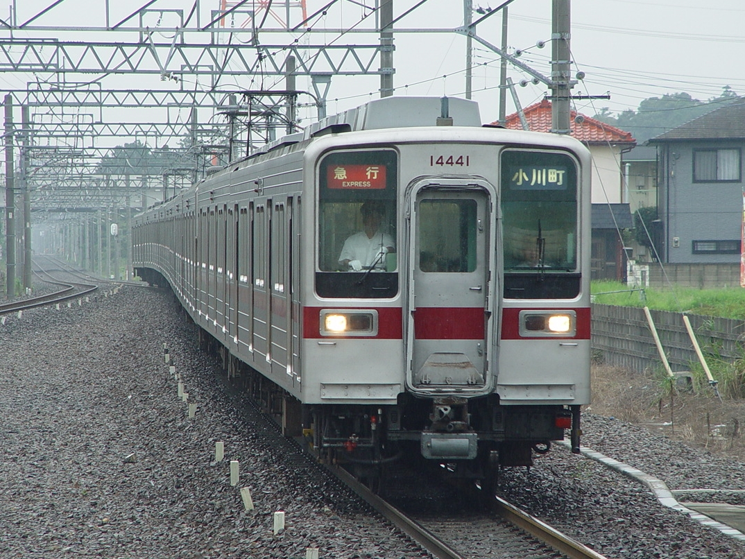 A Tobu 10030 series 10-car EMU approaching Wakaba Station on the Tobu Tojo Line